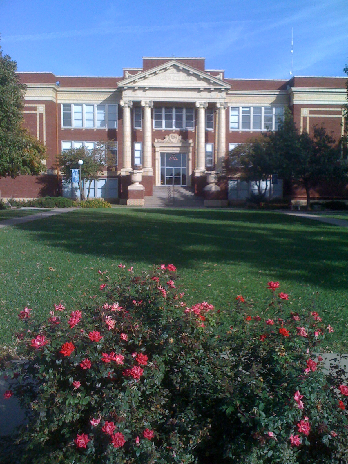 Administration Building